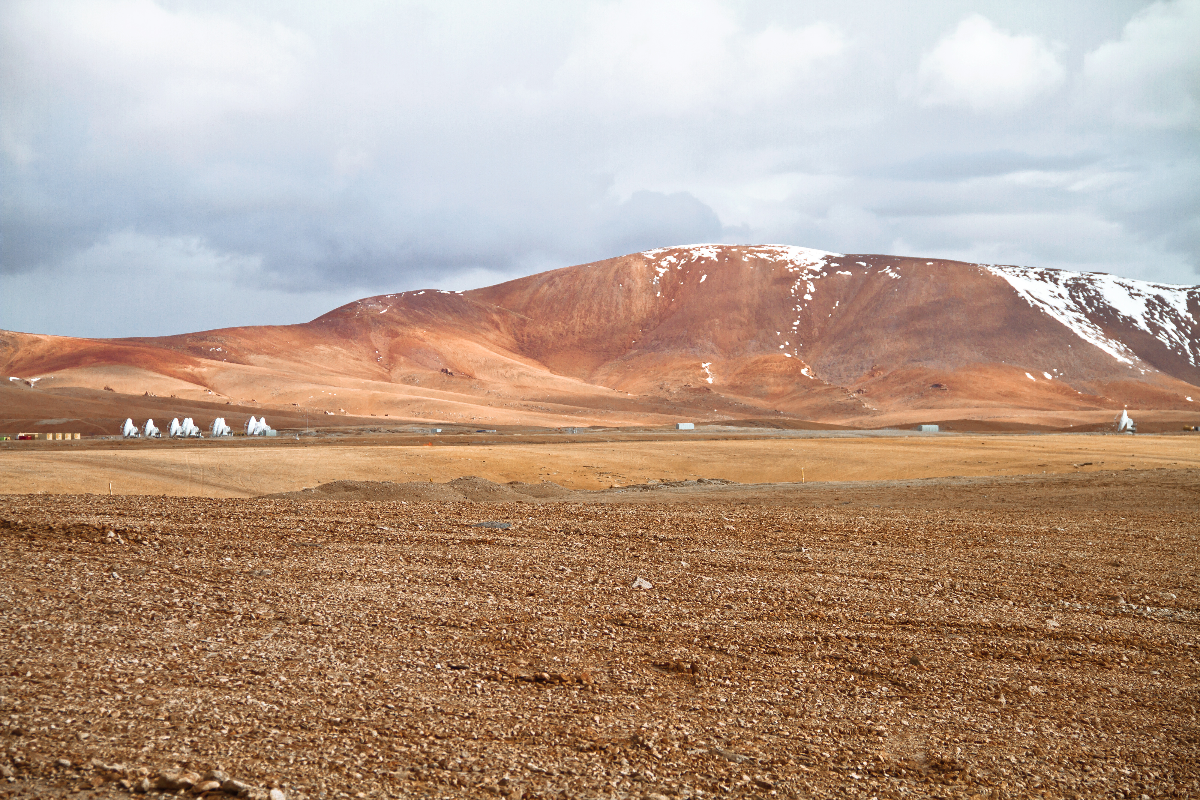 The number of antennas for the Atacama Large Millimeter/submillimeter Array (ALMA) on the Chajnantor plateau has now reached double digits! The tenth antenna was moved up from the Operations Support Facility at an altitude of 2900 metres to the Array Operations Site at 5000 metres, high in the Chilean Andes, on 4 March 2011 using one of the ALMA transporter vehicles. ALMA is a telescope designed to observe millimetre- and submillimetre-wavelength light with its array of antenna dishes. Using a technique called interferometry, ALMA acts like a single giant telescope as large as the whole set of antennas. Thanks to the transporter vehicles, the antennas can be arranged in different configurations, where the maximum separation between them varies from 150 metres to 16 kilometres. The distant viewpoint of this photograph is necessary for one to see all ten of the antennas in a single shot. Nine of them, including the newest addition, are clustered together on the left of the image, but the tenth is about 600 metres away on the right. ALMA is currently in a testing phase, and this lone antenna allows the astronomers and engineers to test the system’s performance with a longer baseline — the separation between a pair of antennas. When ALMA construction is completed in 2013, there will be a total of 66 antennas in the array. The rare cloudy sky seen in the photograph is due to the Altiplanic Winter, in which the jet stream reverses and brings moist air from the east to this usually extremely arid site. The ALMA project is a partnership of Europe, North America and East Asia in cooperation with the Republic of Chile. ESO is the European partner in ALMA. Links * About ALMA at ESO * Joint ALMA Observatory website